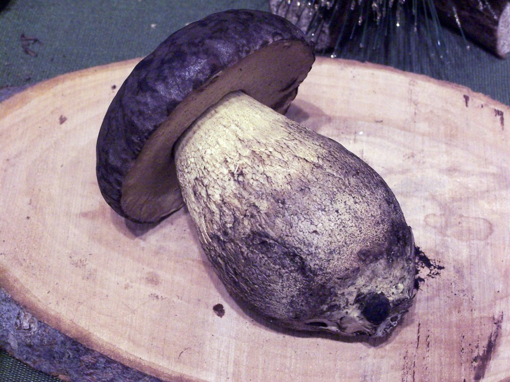 Mushroom Leccinum lepidum, found in Latina, Italy.